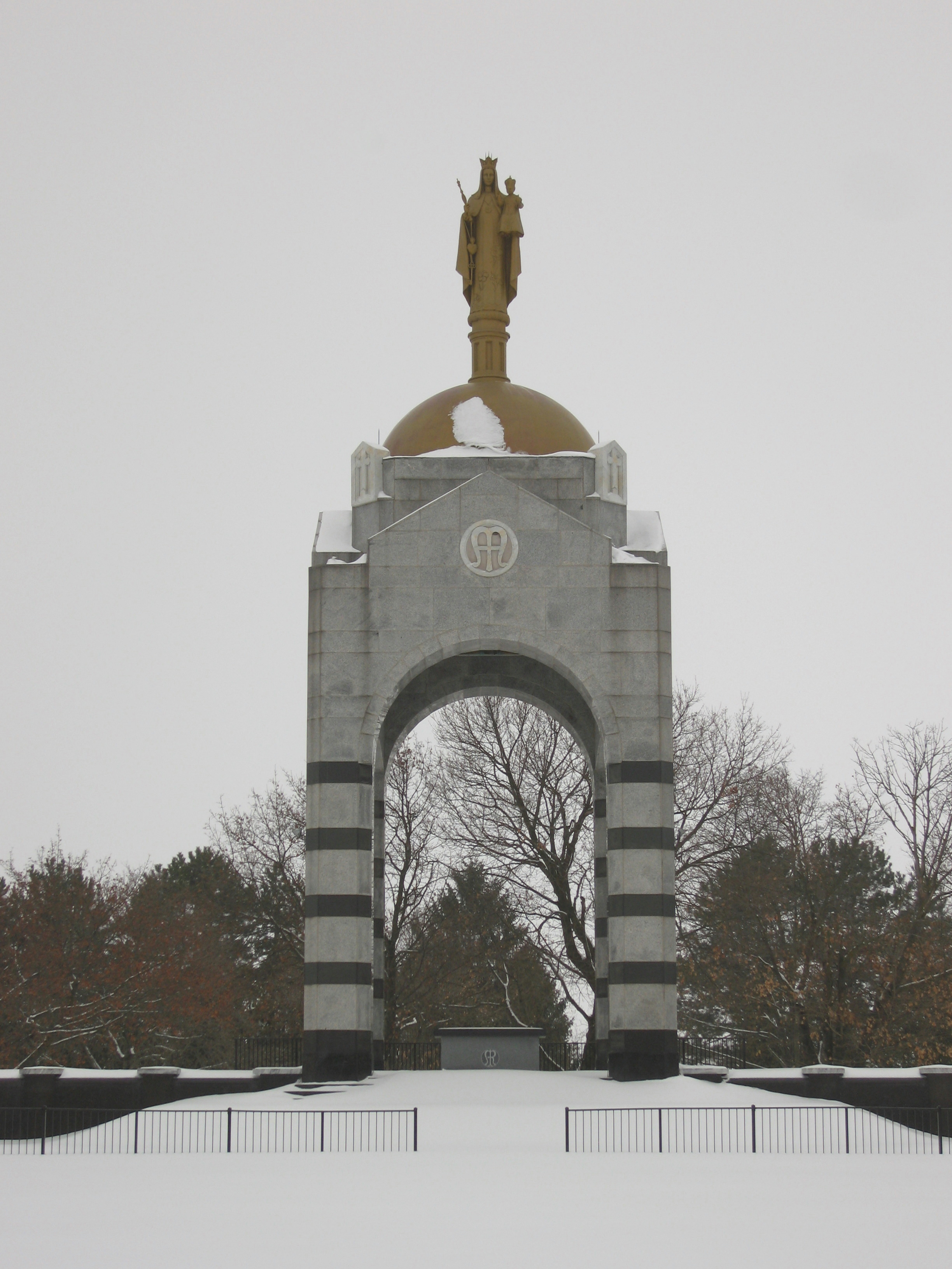 Basilica and National Shrine of Our Lady of Consolation in Carey, Ohio - outdoor altar in the attached park